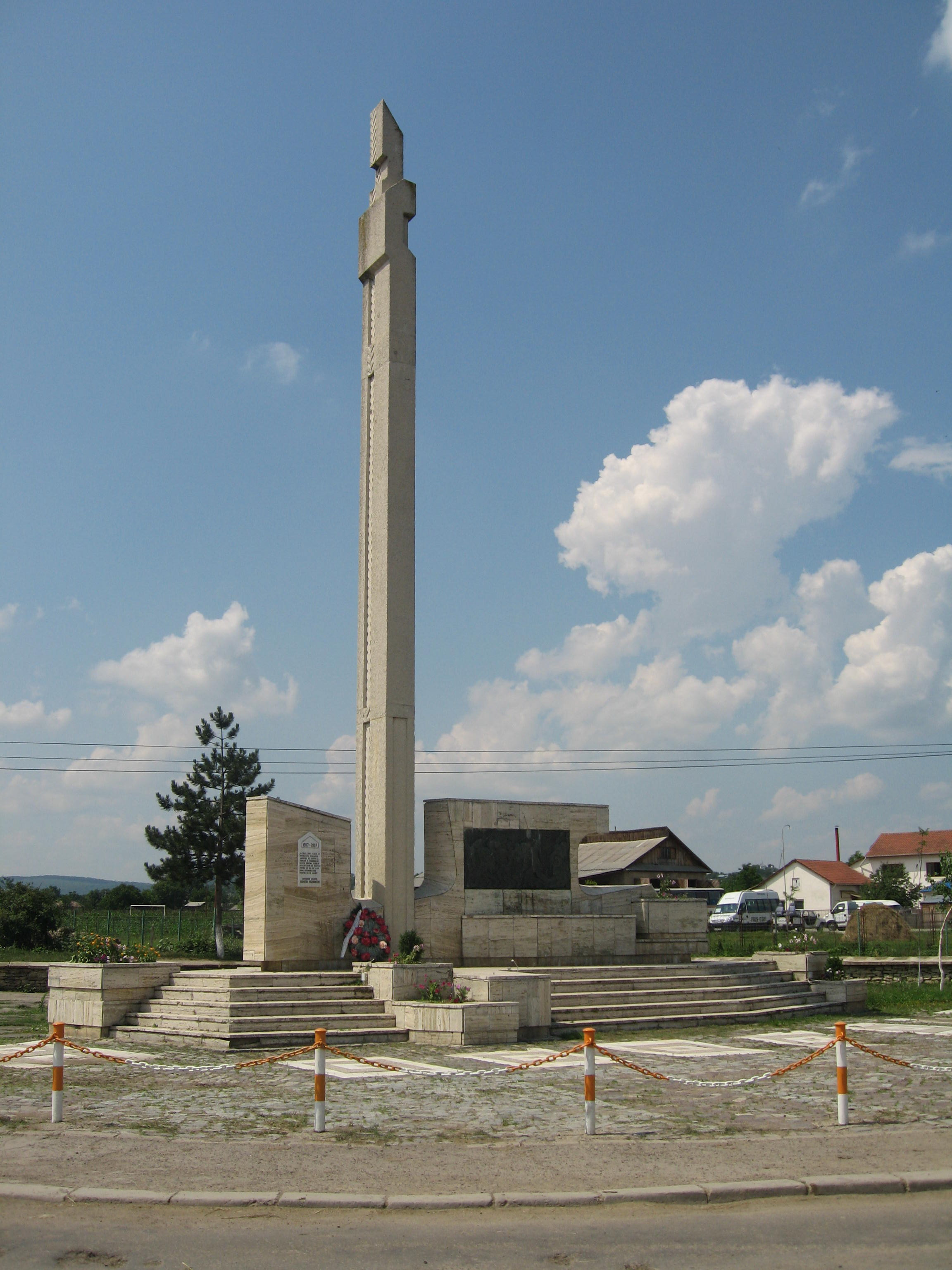 monument